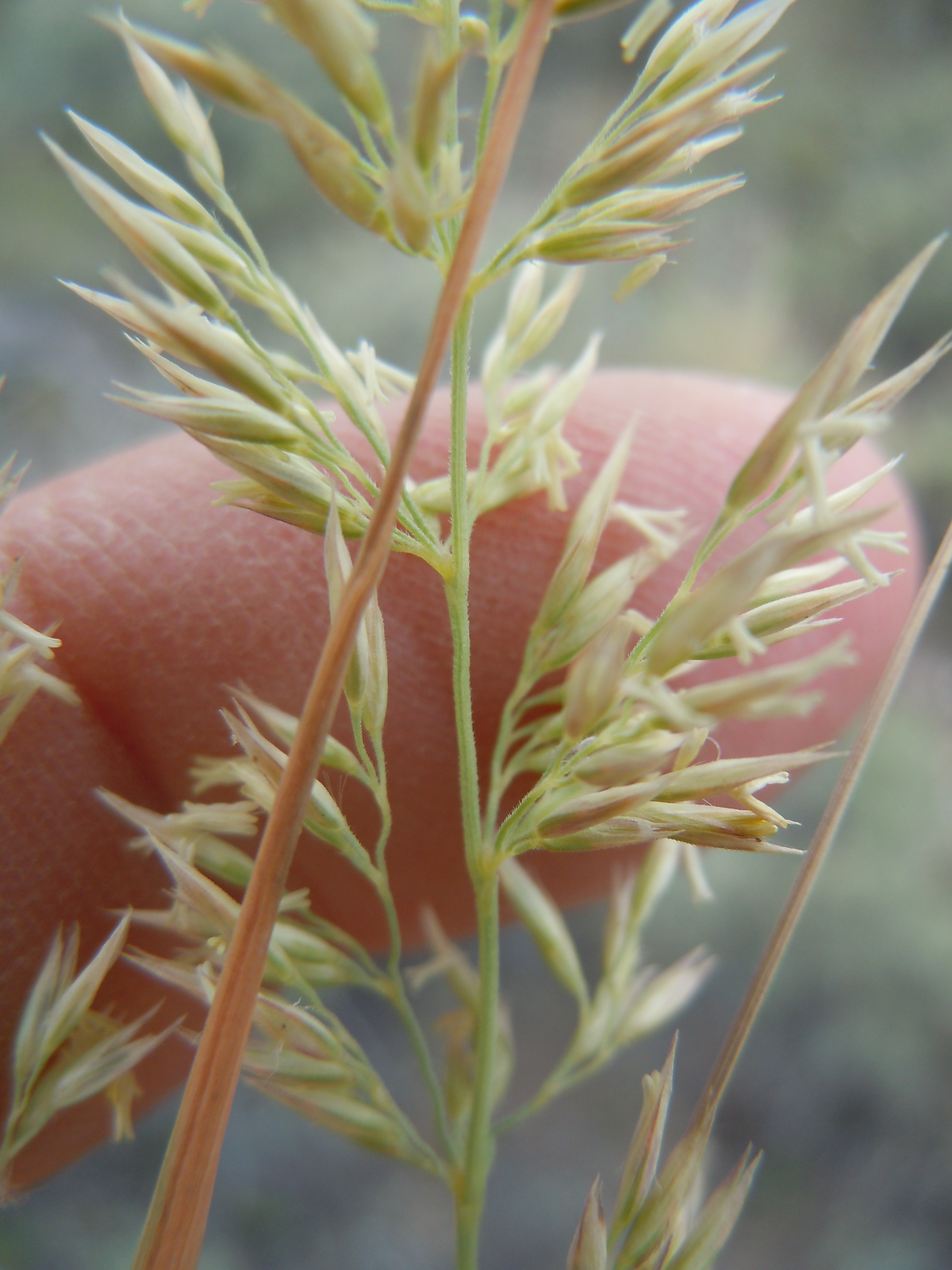 Calamagrostis montanensis is more common roadside than in sagebrush steppe with high native plant cover, which is indicative of its preference for a more disturbance-prone or moister setting.